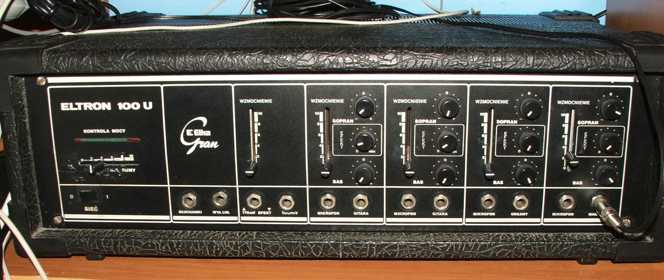 Eltron 100U audio power amplifier